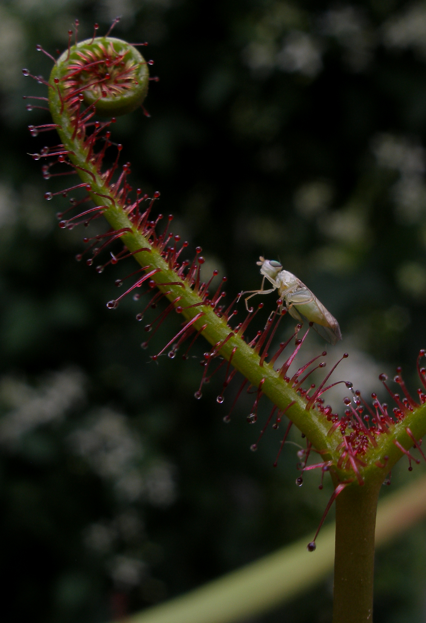 Drosera binata leaf with prey